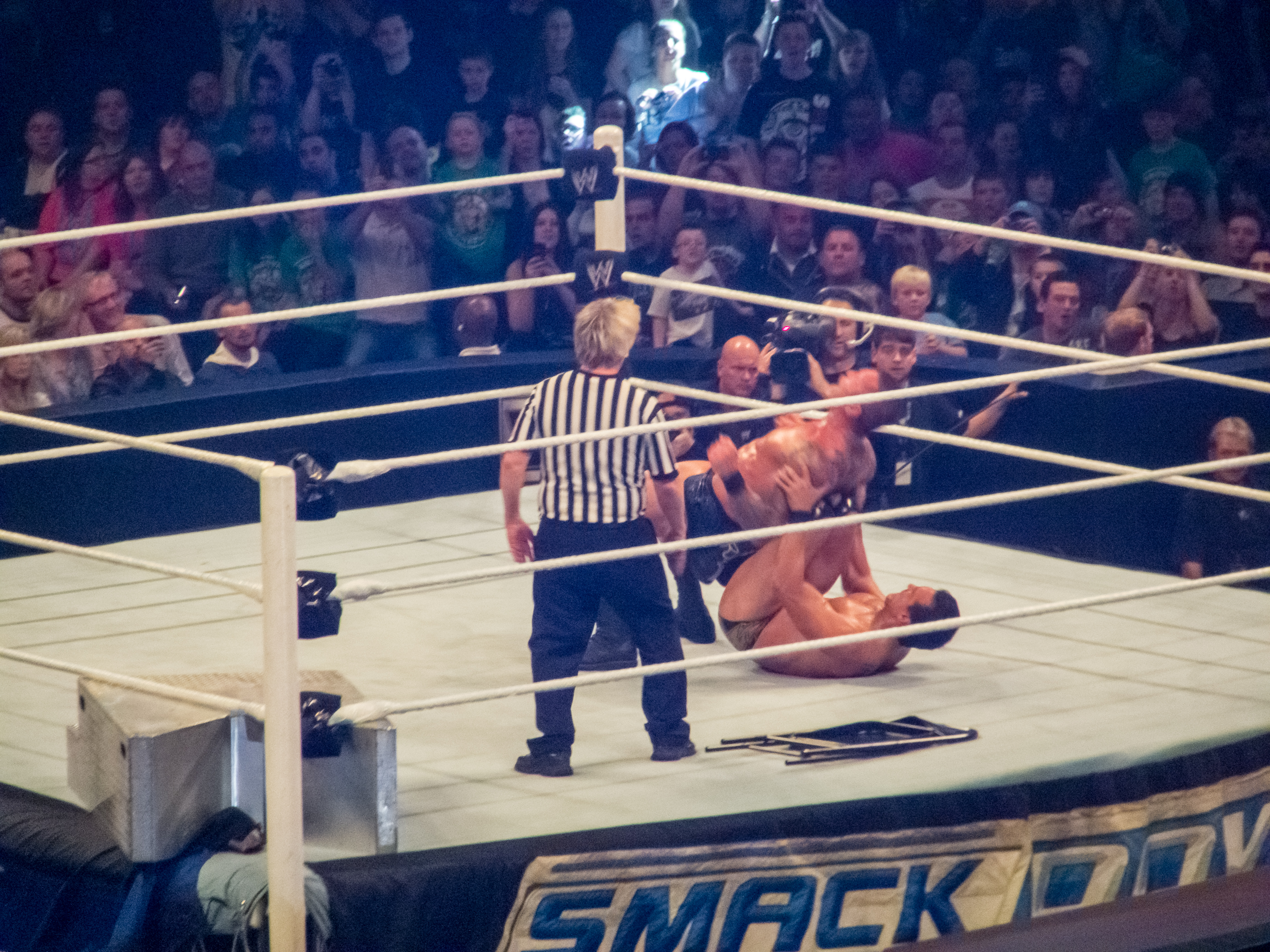 Alberto Del Rio run a backbreaker on Randy Orton